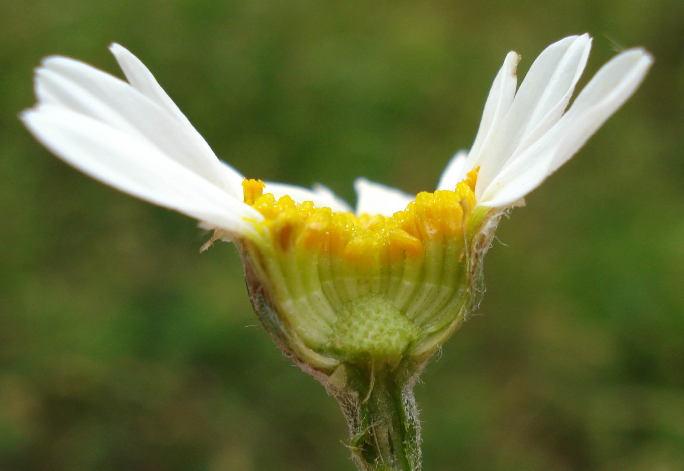 Tanacetum corymbosum (Unterfranken, Germany)